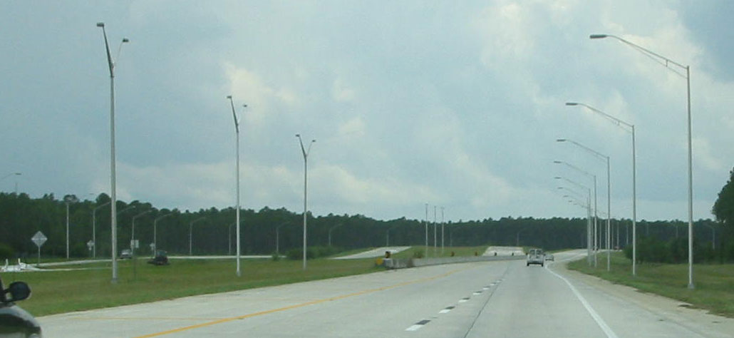 Southbound on SR 9A at the future split with SR 9B in southeastern Jacksonville, Florida Taken July 27, 2003 by User:SPUI.